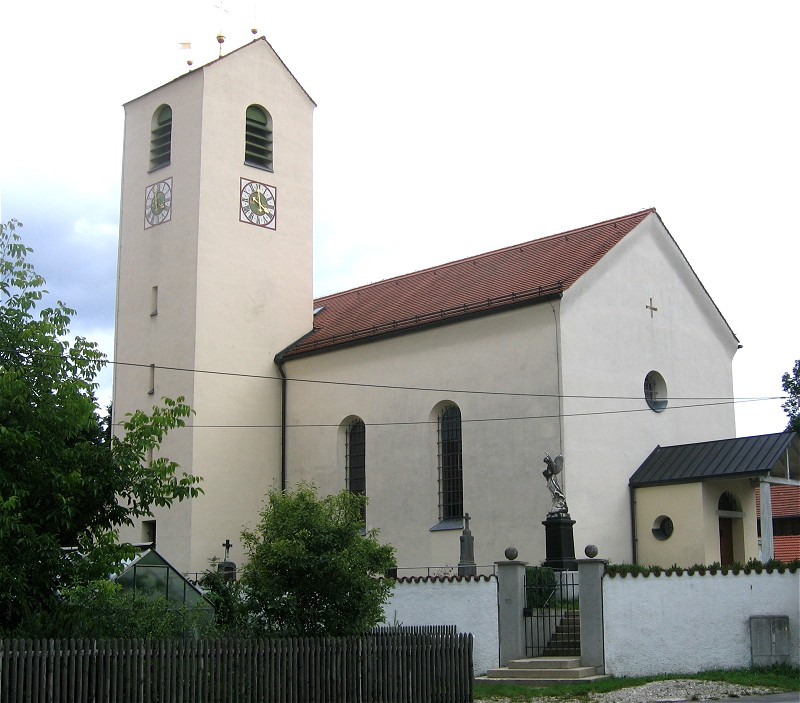 Straßlach, St Peter and Paul Subsidiary Church from north-west.